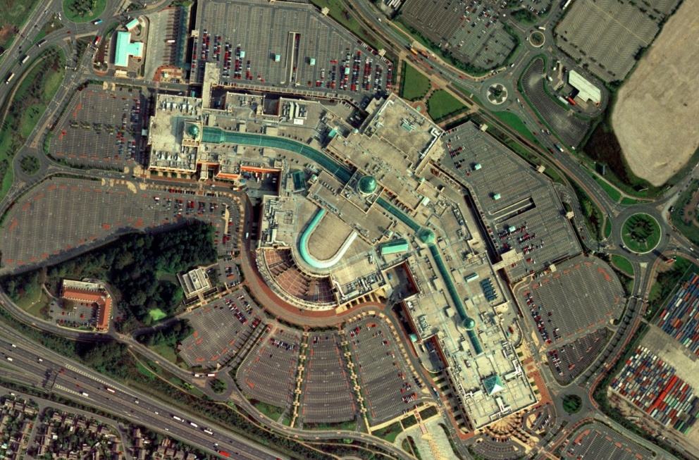 Trafford Centre (Nasa World Wind)